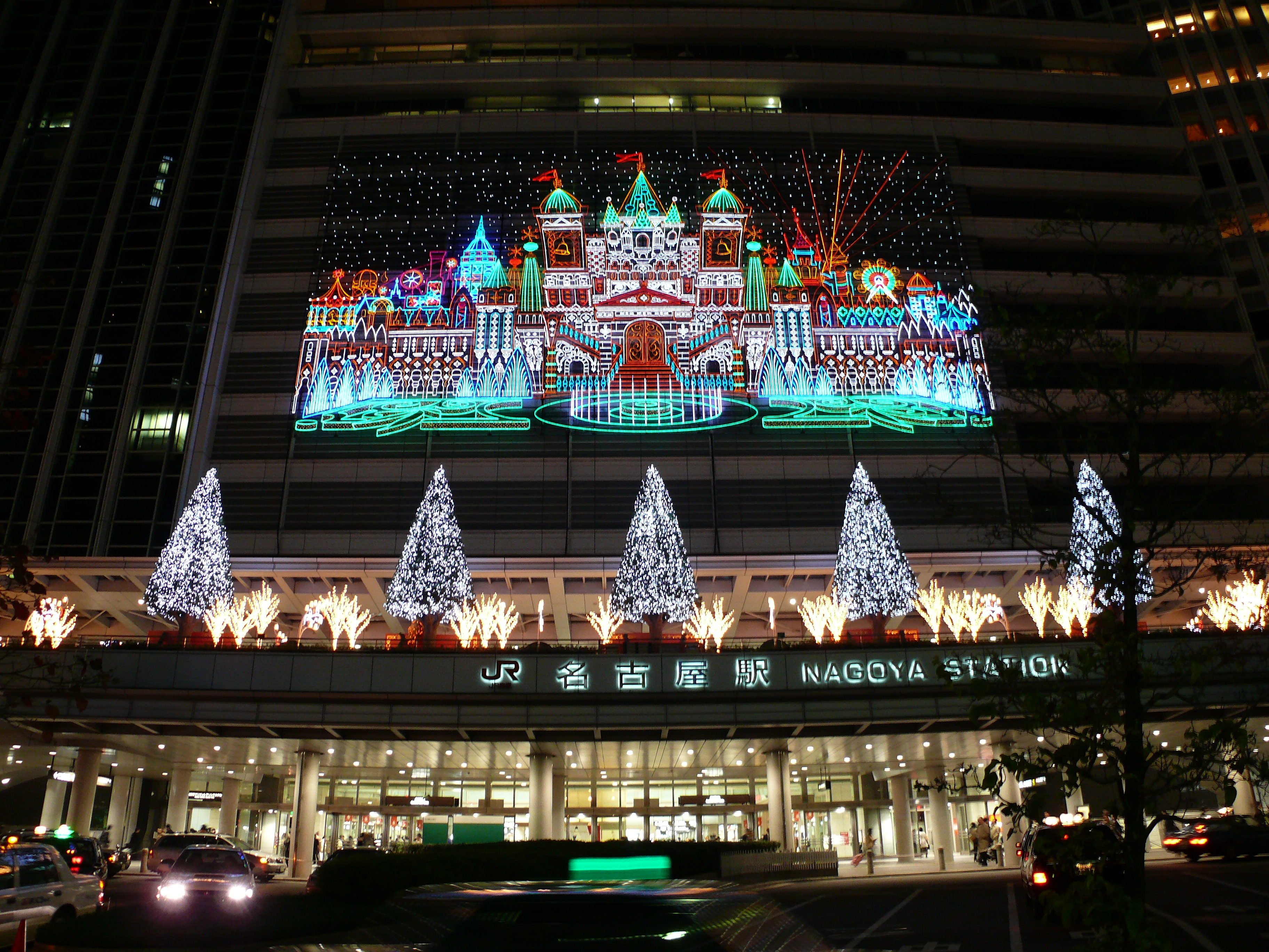 JR Central Towers in Towers-Lights2007.